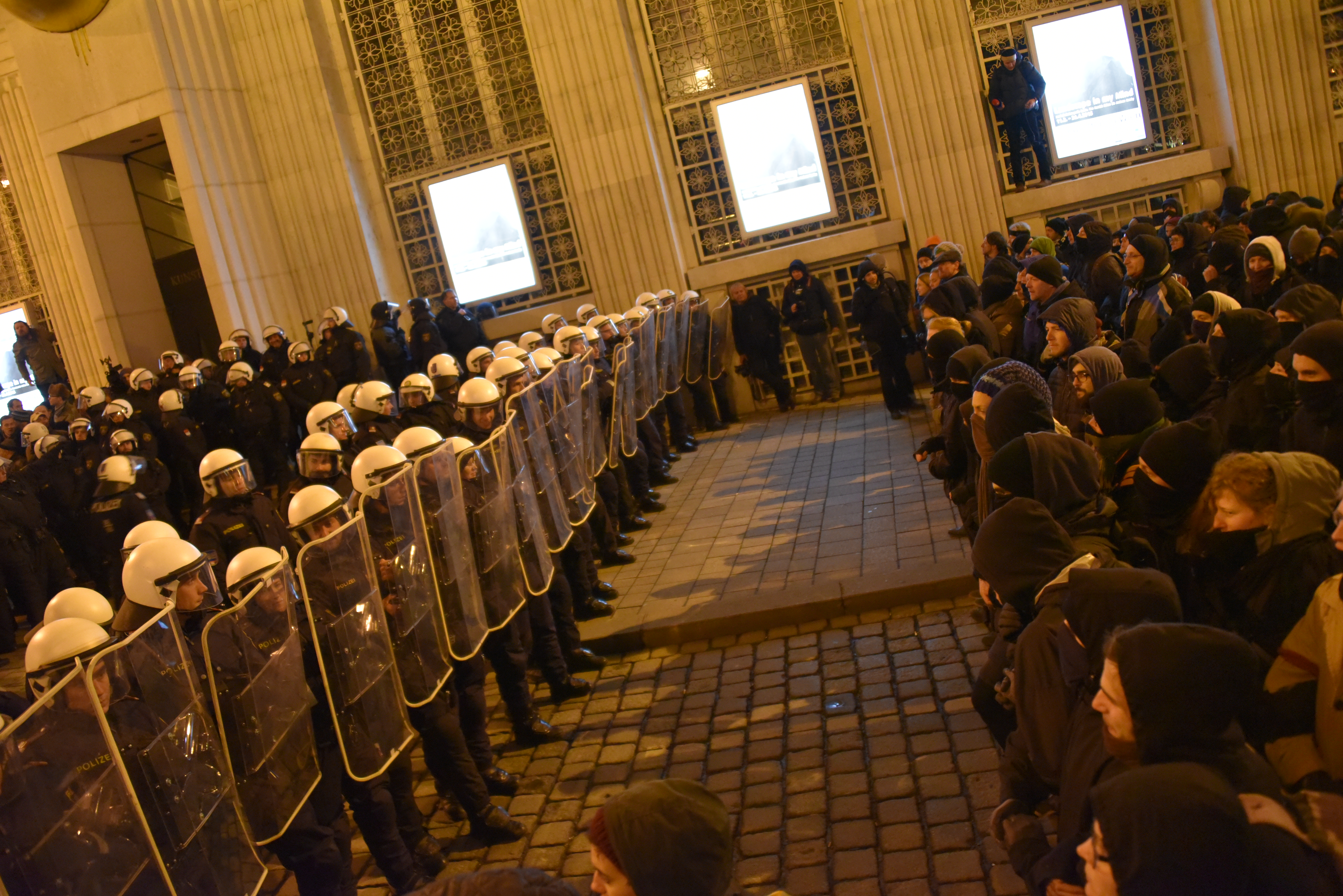 Offensive gegen Rechts blocking the way of Vienna's first Pegida demonstration